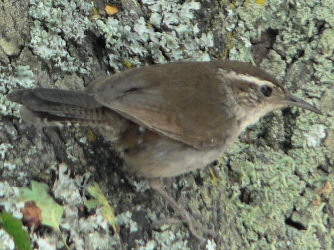 Description: Bewick's Wren Thryomanes bewickii calophonus Viewpoint location: 5500 block of 26th Avenue NE, Seattle, Washington Lat/Long: 47.6694°N, 122.2995°W (WGS84/NAD83) USGS Seattle North (WA) [1] Viewpoint elevation: 37 m View direction: Northeast Date and time: 2006.06.19 12:42:21 PDT Camera: Panasonic Lumix DMC FZ5 Photographer: Walter Siegmund ©2006 Walter Siegmund